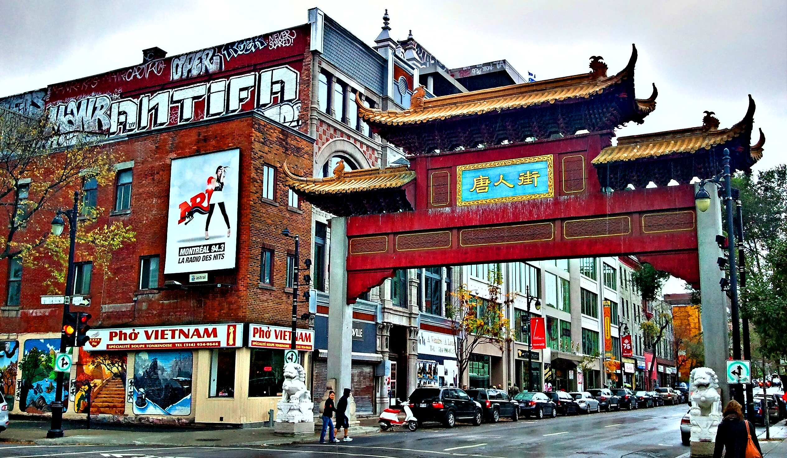 Impressive china town ornate gate, Montreal, Quebec, Canada